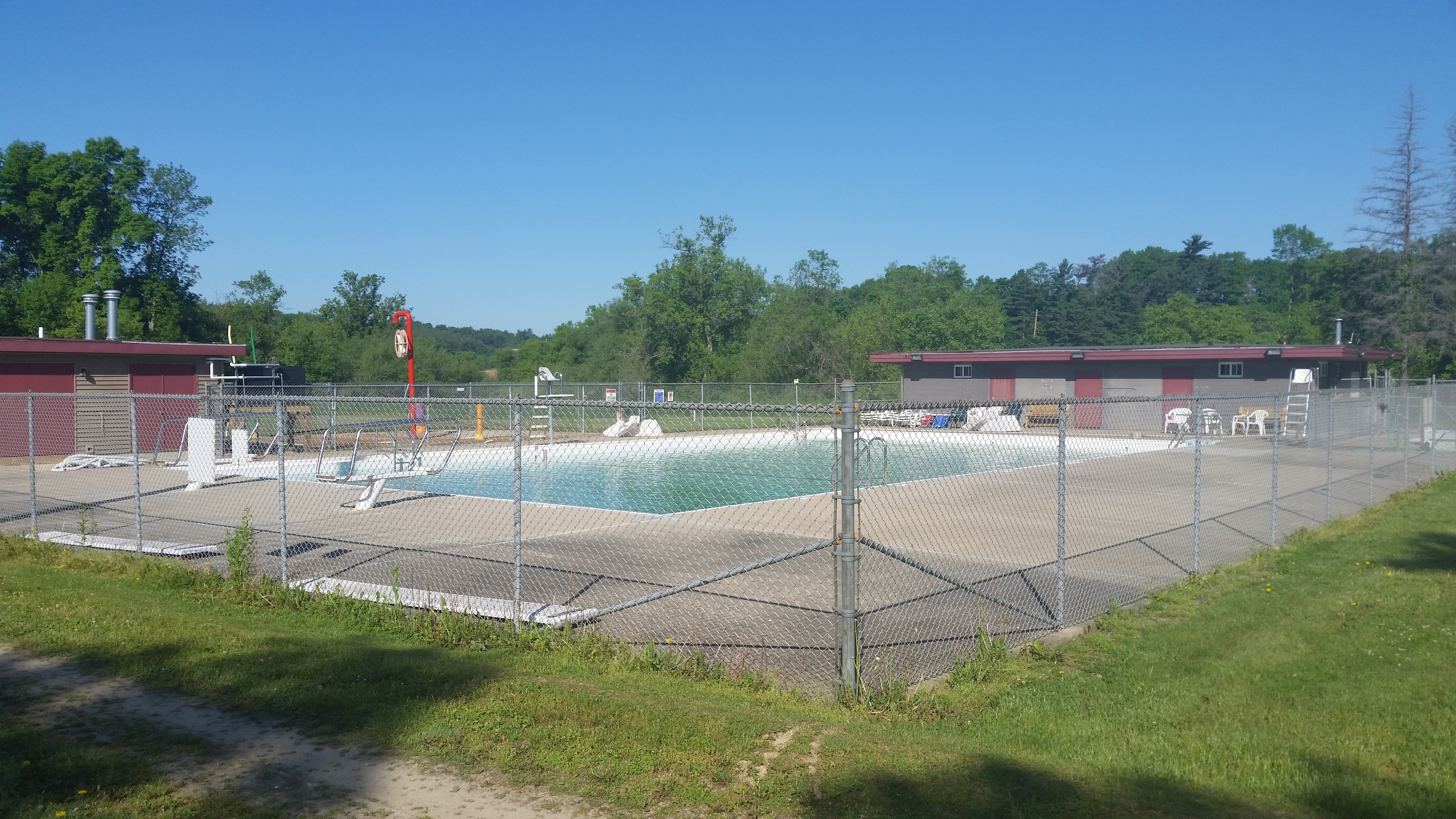 Photo taken on the morning of Friday June 7, 2019. This was the last day of classes for the 2018-2019 school year at many area school districts. I am sure this pool will be busy in the next few days.